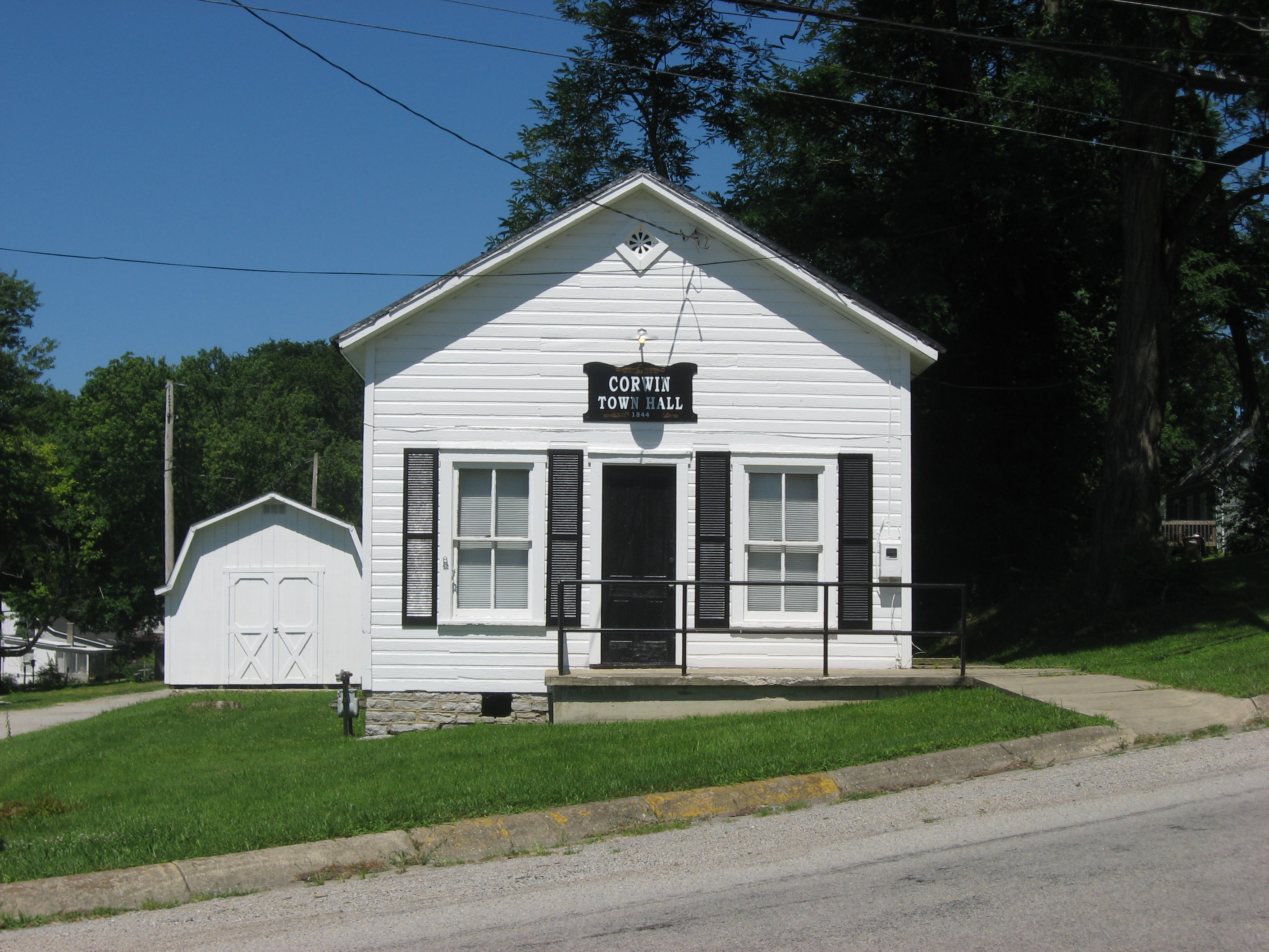 Front of the Corwin Council House and Jail, located at 946 Harveysburg Road (Corwin Avenue) in Corwin, Ohio, United States. Built in 1898, it is listed on the National Register of Historic Places.